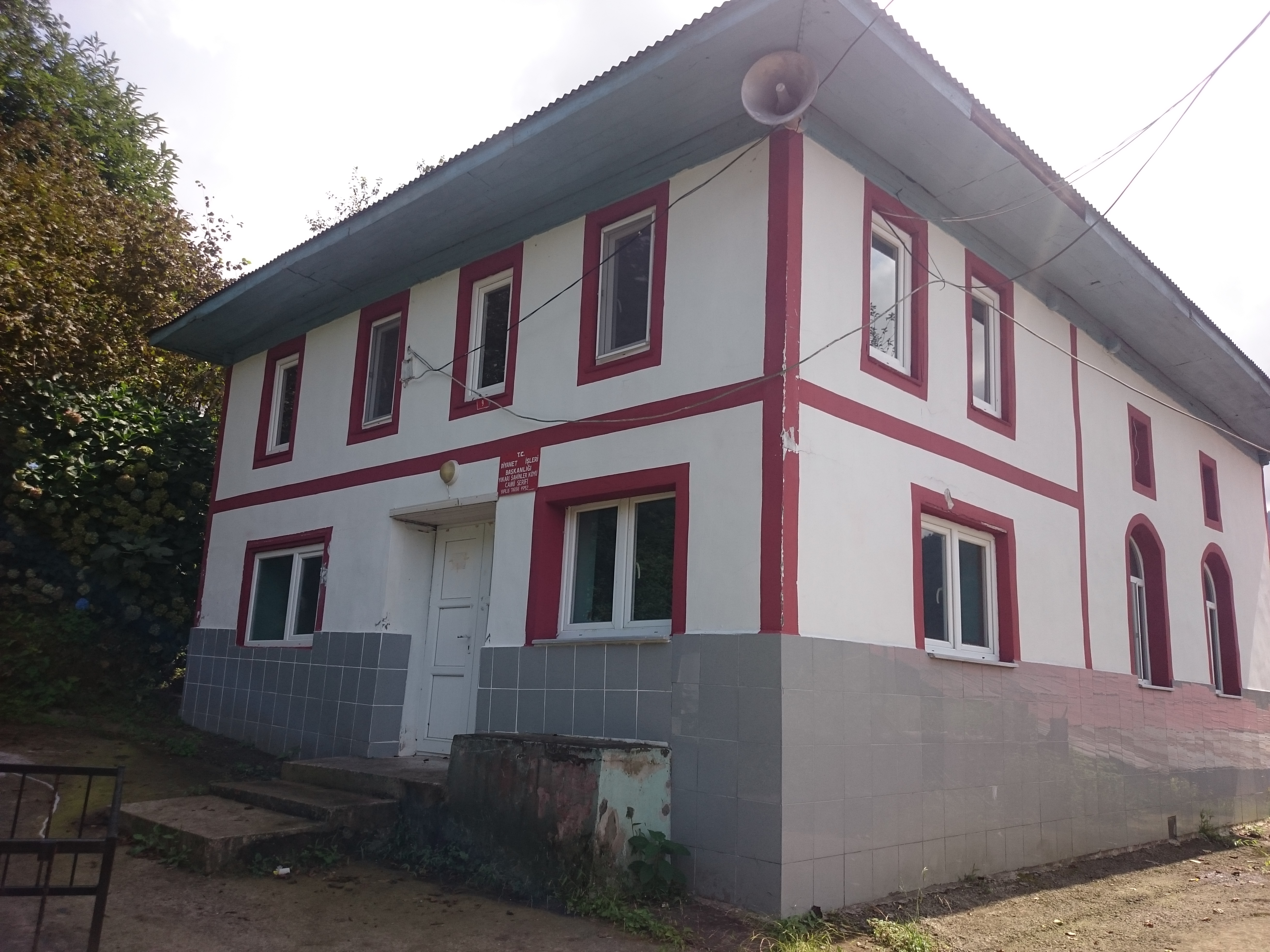 Napşit mosque that built in 1952